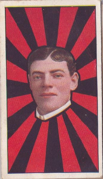 Cigarette card of Billy Harrison from the 1911 Sniders & Abrahams series.